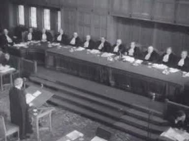 Frame extracted from newsreel on the Corfu Channel Incident. Sir Hartley Shawcross speaks before the International Court of Justice on the subject of the Corfu Channel incident.